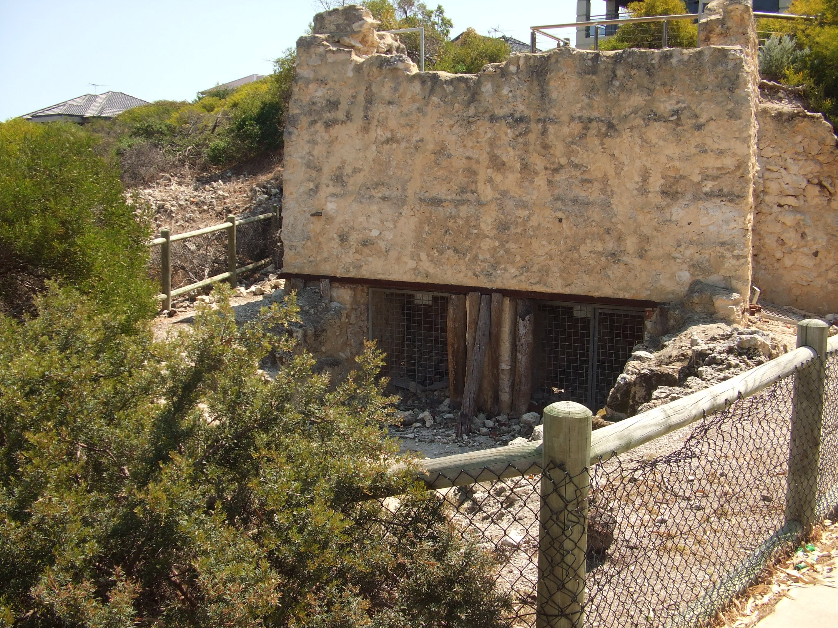 A view of Cooper's eastern lime kiln in Cooper's Park, Mindarie.